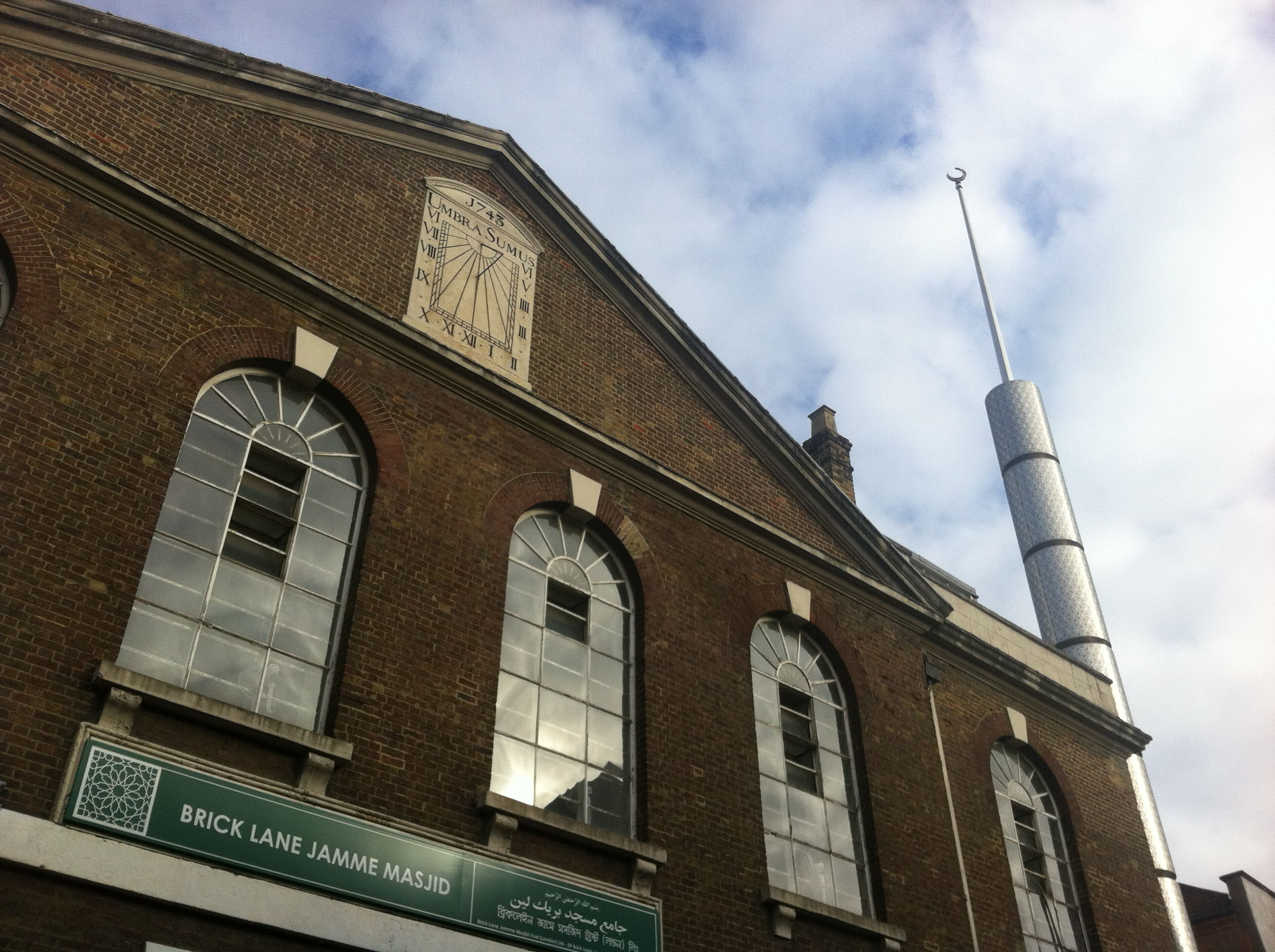 The Mosque, Fournier Street, Georgian Streets of London